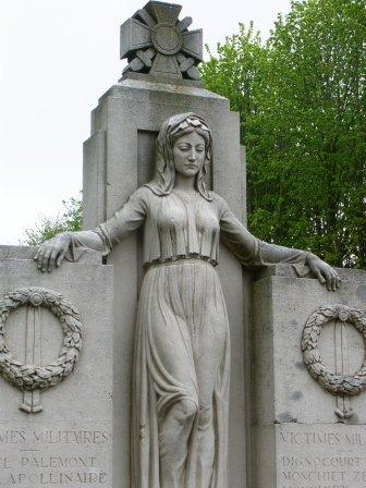 The monument aux morts at Auchonvillers in the Somme. A work by Charles Gern